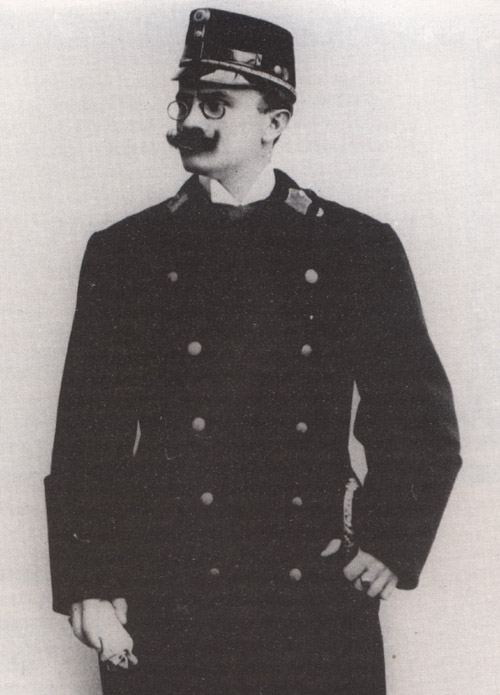 Jiří Guth, founding member of the IOC Item part of: Czech National Olympic Committee; photography, reproduction, no restrictions on use Copyright: free of charges